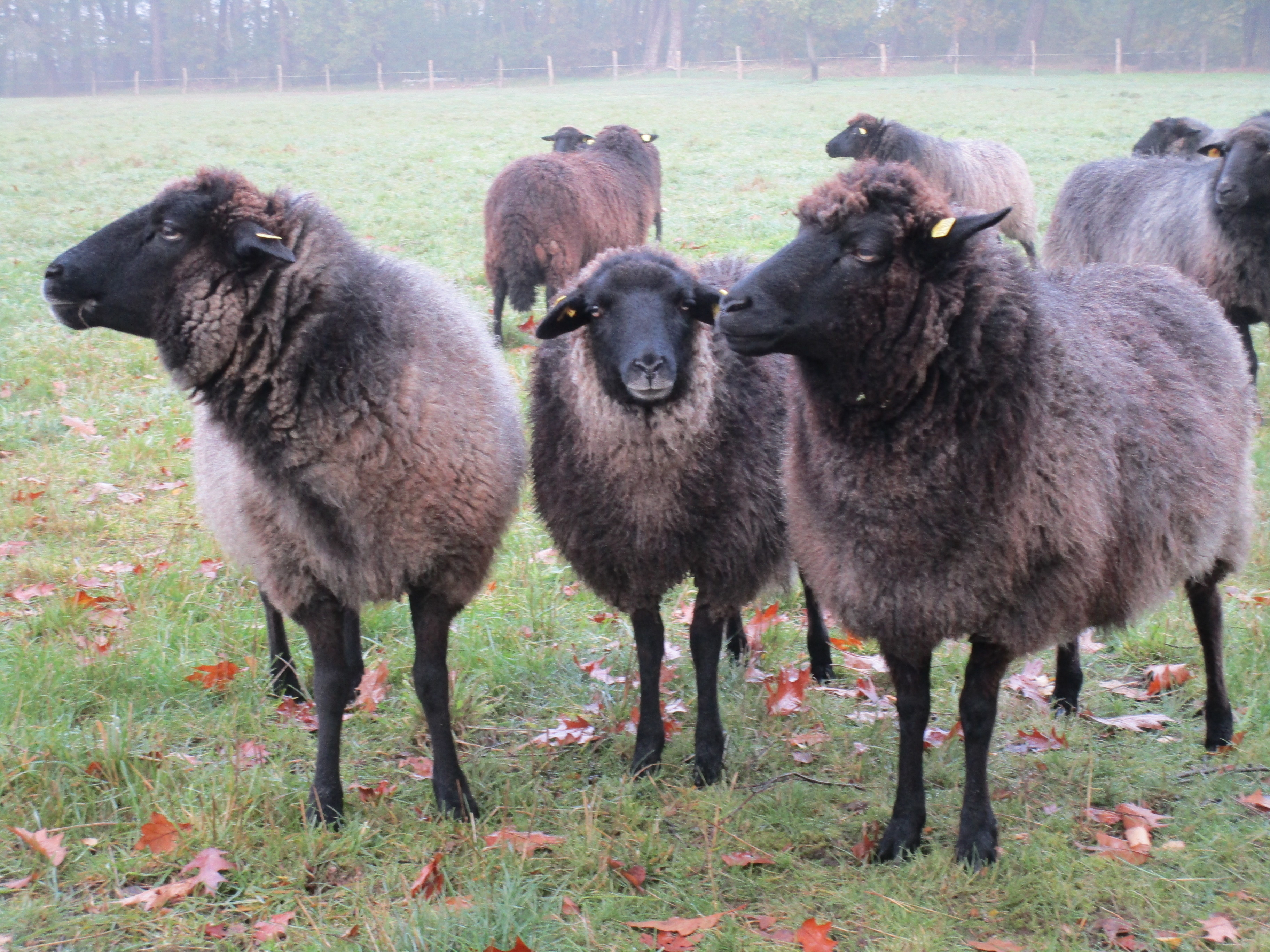 The Pomeranian Coarsewool is an old domestic sheep breed, here to be seen at Hunteburg ...